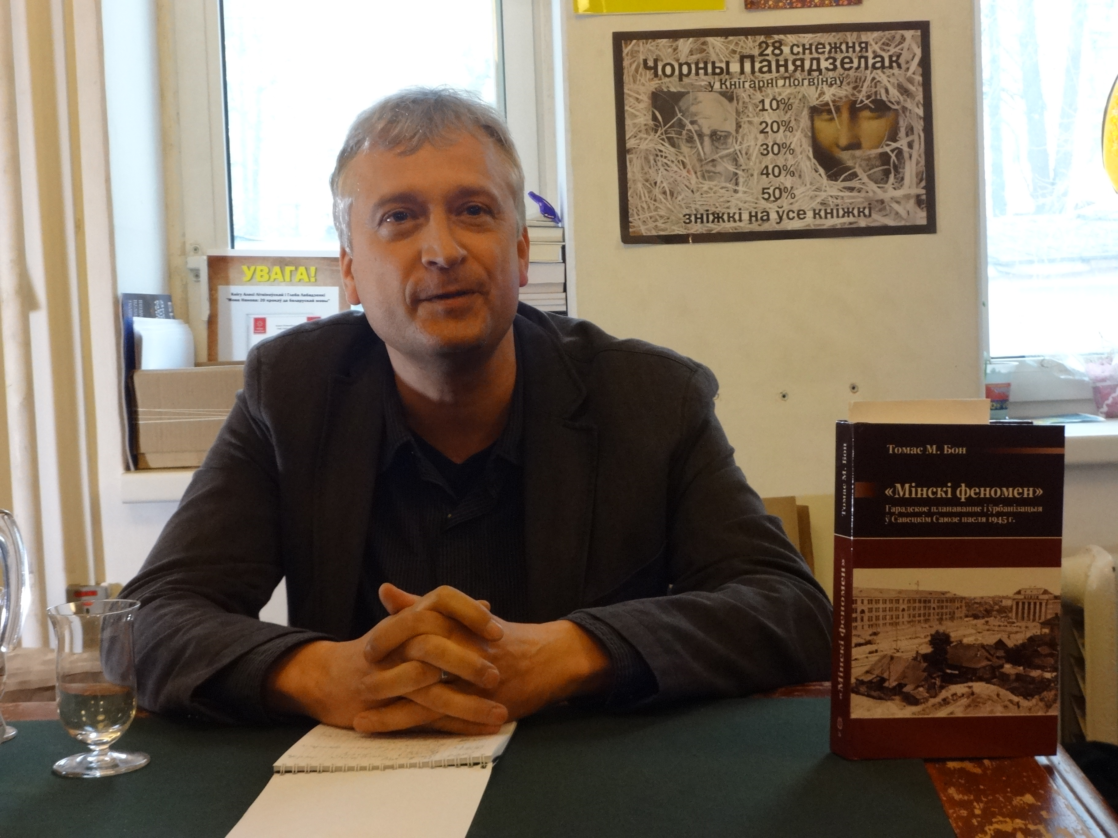 Thomas M. Bohn / Thomas Michael Bohn (born 1963 AD) -- German historian. Thomas Michael Bohn at the presentation of Thomas Michael Bohn's book «"Мінскі феномен". Гарадское планаванне і ўрбанізацыя ў Савецкім Саюзе пасля 1945 г.» (2016). Photo by 18 April 2016 AD in Minsk (Belarus).